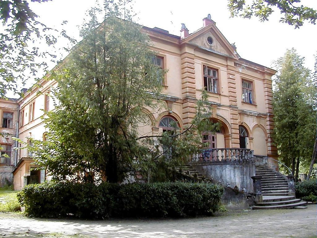 Raiskum manor